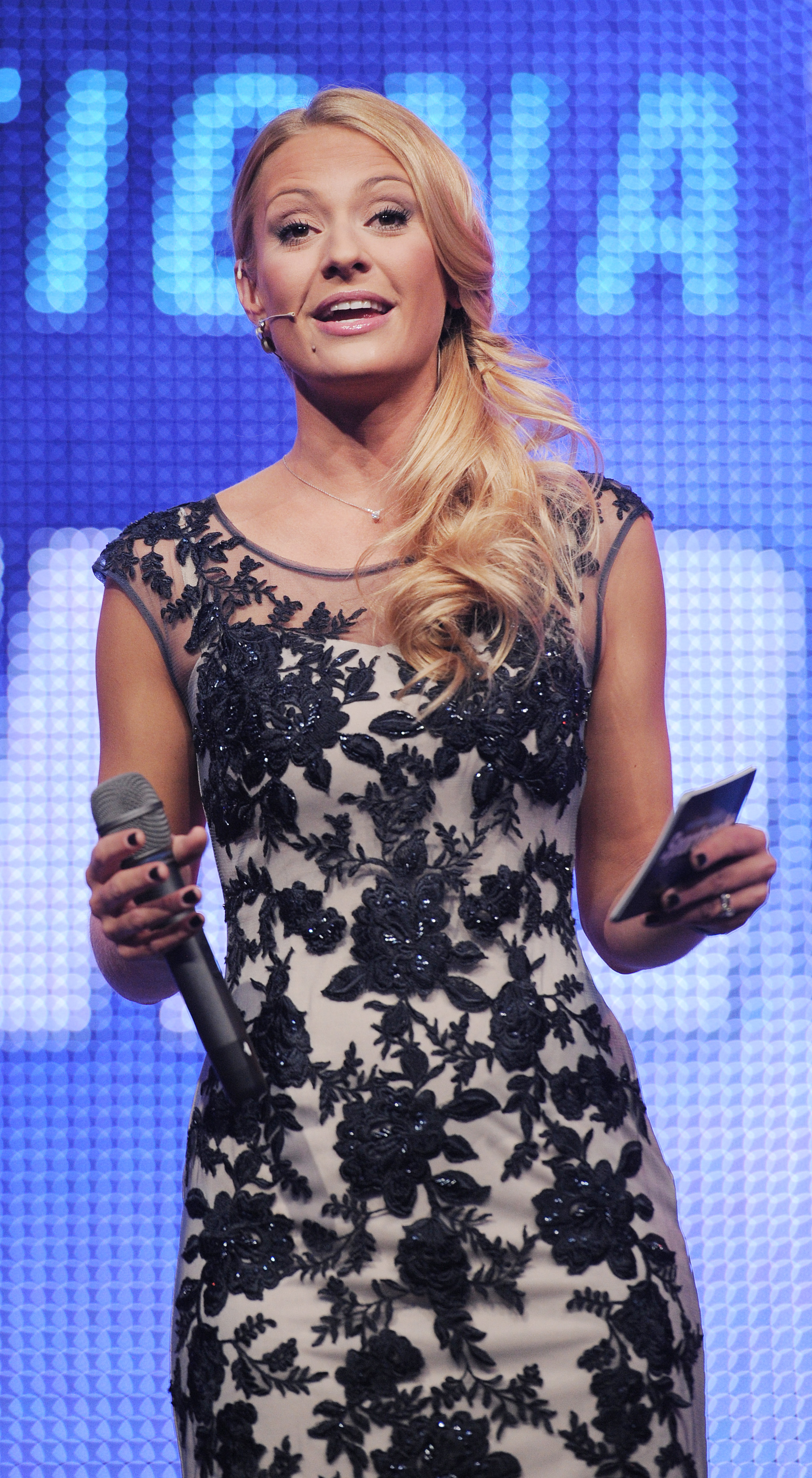 Davos, 03.10.2014. Sport, 12. Internationale Sportnacht Davos 2014. Die Moderatorin Christa Rigozzi.. Copyright by: foto-net / Kurt Schorrer